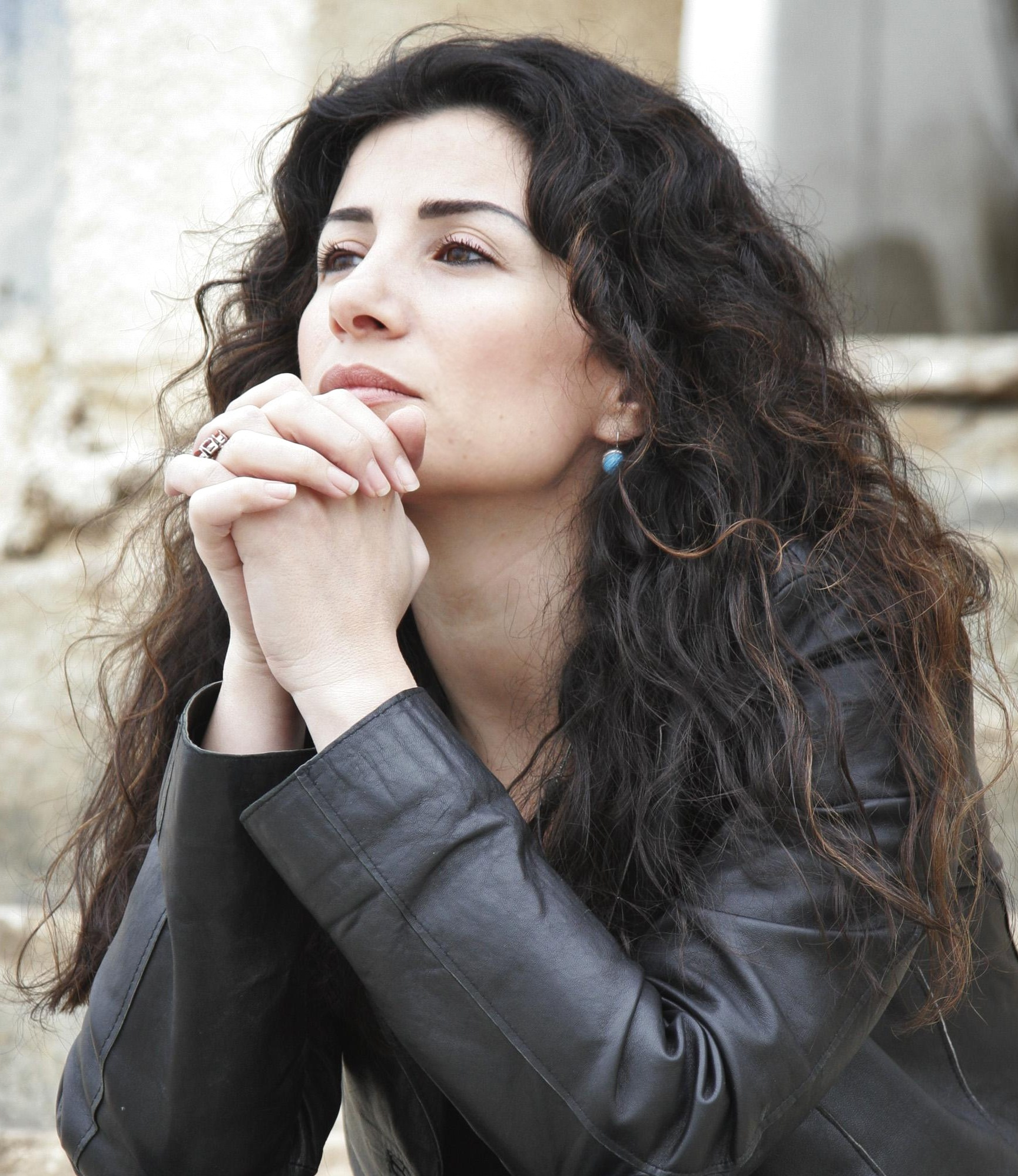 Joumana Haddad on 2007.